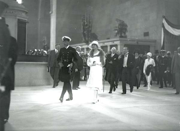 The Prince of Wales with Freda Dudley Ward - opening Union Station. (Toronto, Canada).